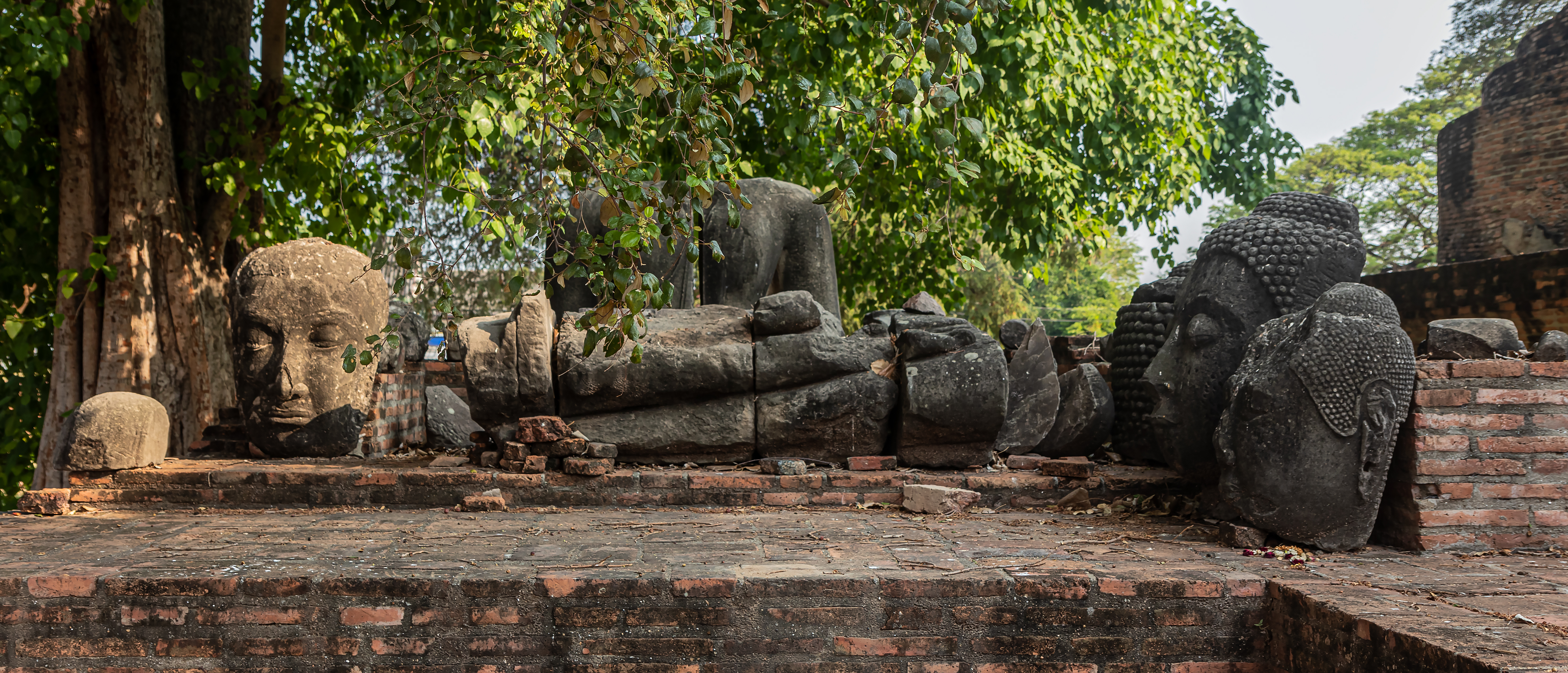 Parts of scultures in Wat Ratchaburana, Ayutthaya, Thailand.